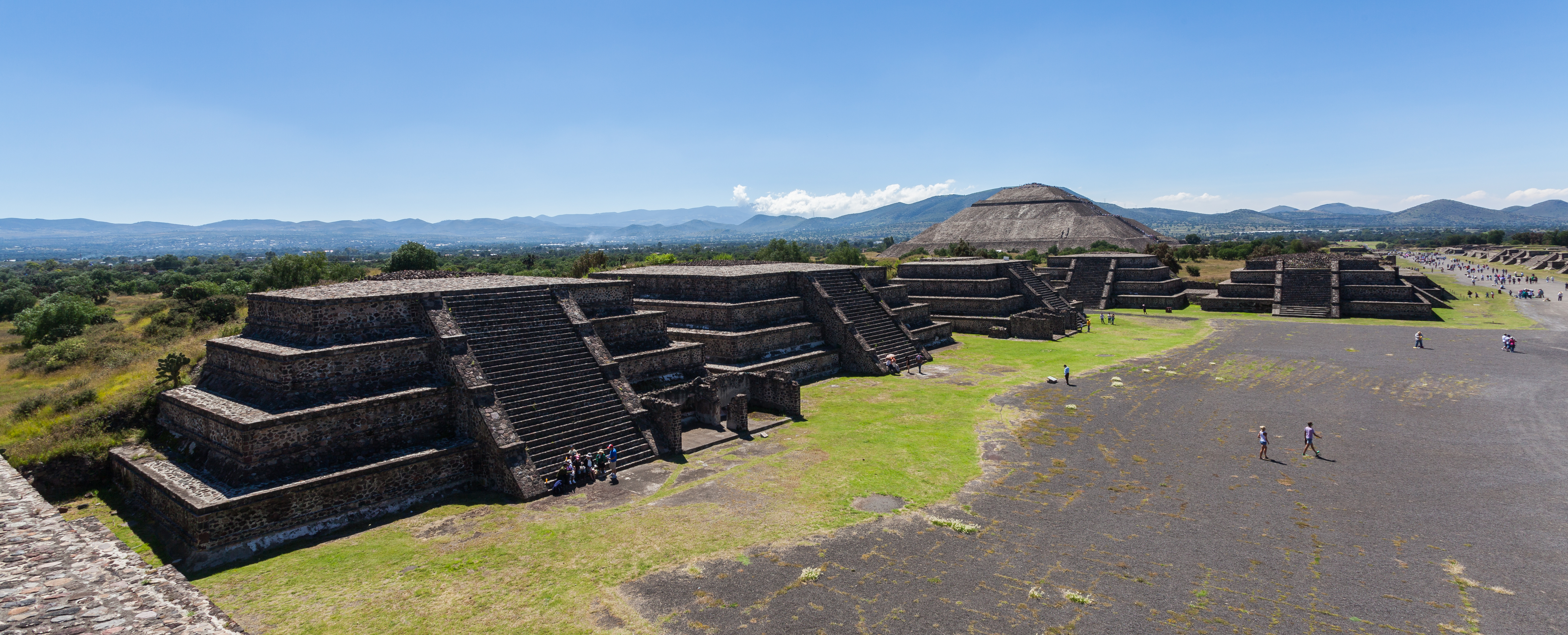 Teotihuacán, Mexico